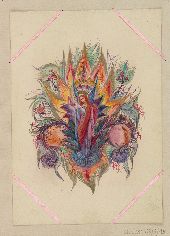 Spirit drawing by Anna Mary Howitt maybe guess 1858